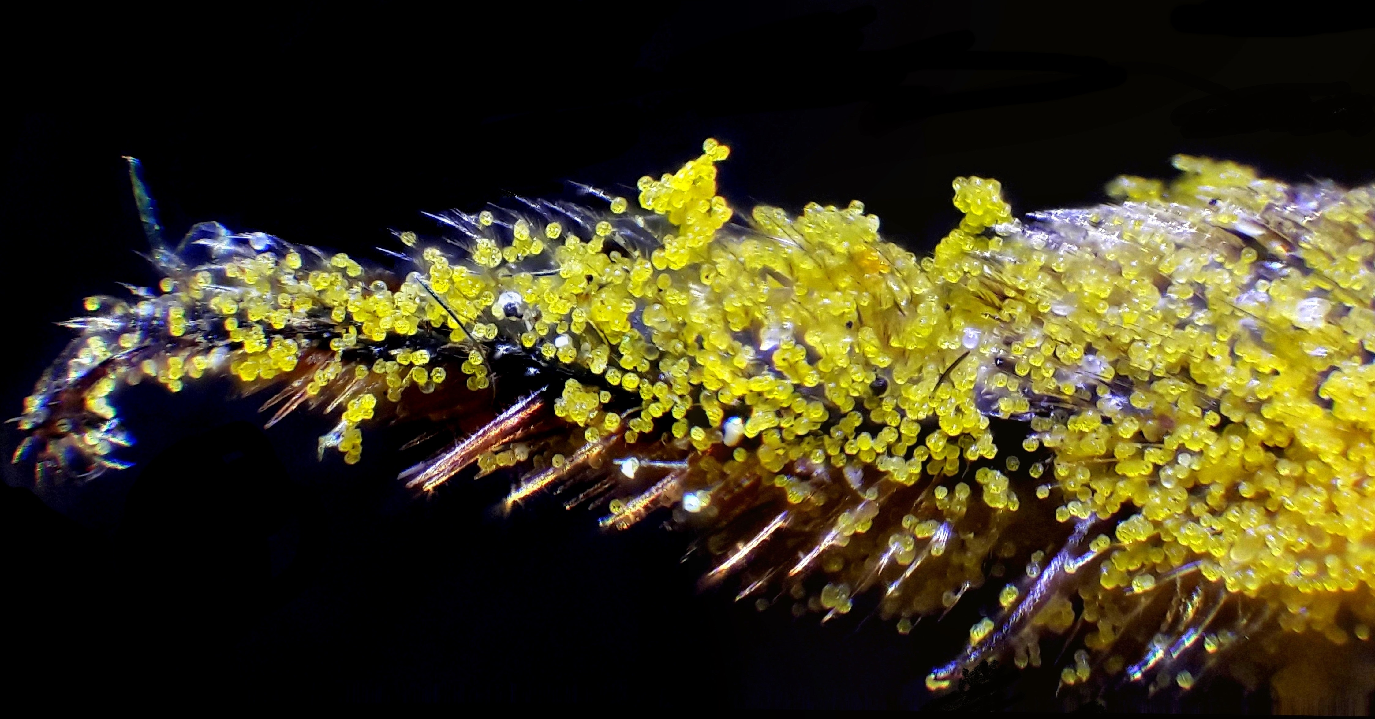 When flying from flower to flower to the body of bees stick pollen. Flying through the air the bee is electrified, and when it is near the dust particles they are attracted to it, and there and remain. As the accumulation of dust on the body of the bee, she collects them with her paws. Then with a quick motion of brushes, which are located on the tibia of the leg, the pollen moved in a special basket that are on the legs. In these baskets pollen is held by twisted hairs